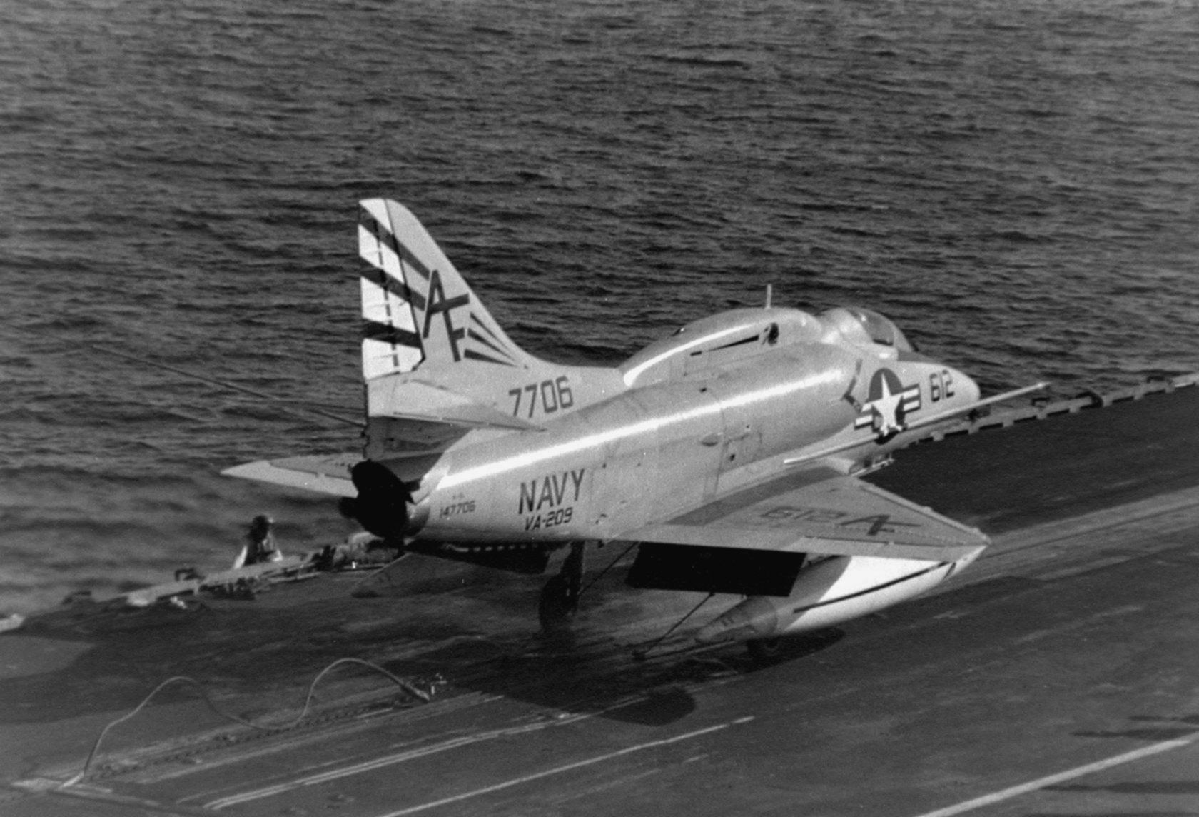 A U.S. Navy Douglas A-4L Skyhawk (BuNo 147706) from U.S. Naval Reserve Attack Squadron VA-209 launching from the aircraft carrier USS Franklin D. Roosevelt (CVA-42), in 1970. VA-209 was a short-lived squadron, it was established on 1 July 1970 and decommissioned again on 15 August 1971. The A-4L 147706 was retired to the MASDC as 3A0480 on 22 April 1976. Later it was sold Malaysia.